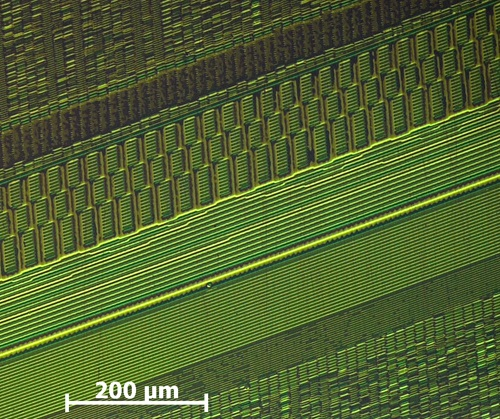 Recording of single magnetisations of bits on a 200MB Harddisk-platter (recording visualized using CMOS-MagView).